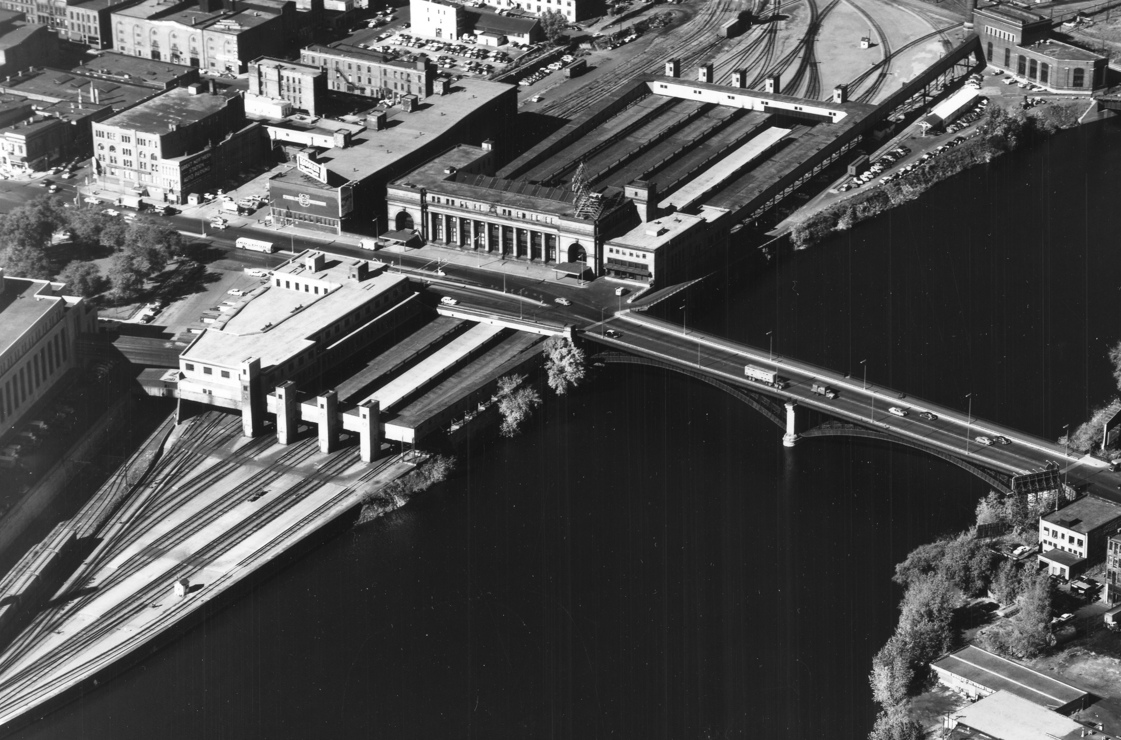 What's left of the oldest part of the city? Well, the post office at far left, the Durkee-Atwood pavilion, 3rd Ave. bridge, Nicollet Island Inn, upper cataract apron, Great Northern trestle, original De La Salle building, and the beloved Grain Belt sign! Berman Buckskin, the Great Northern freight and passenger depots, Don Leary's Records on the island, Eastman Flats. ca. 1955